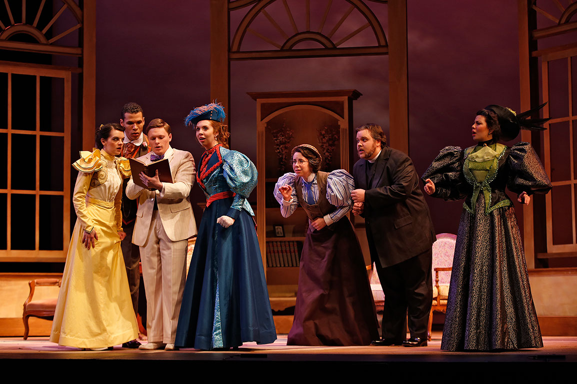 The Importance of Being Earnest